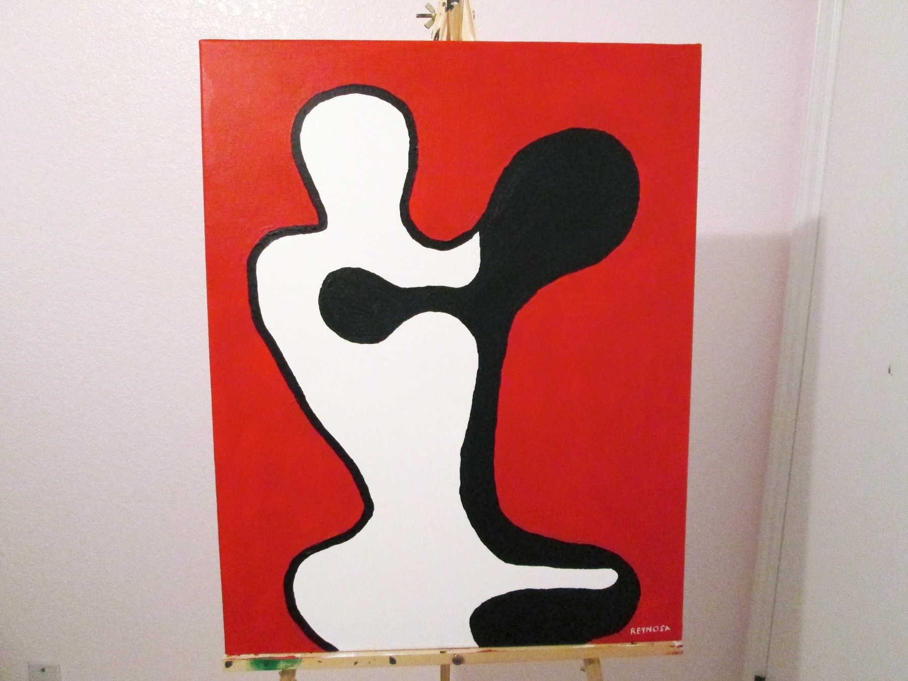 Painting of Madonna and God in Mysticism